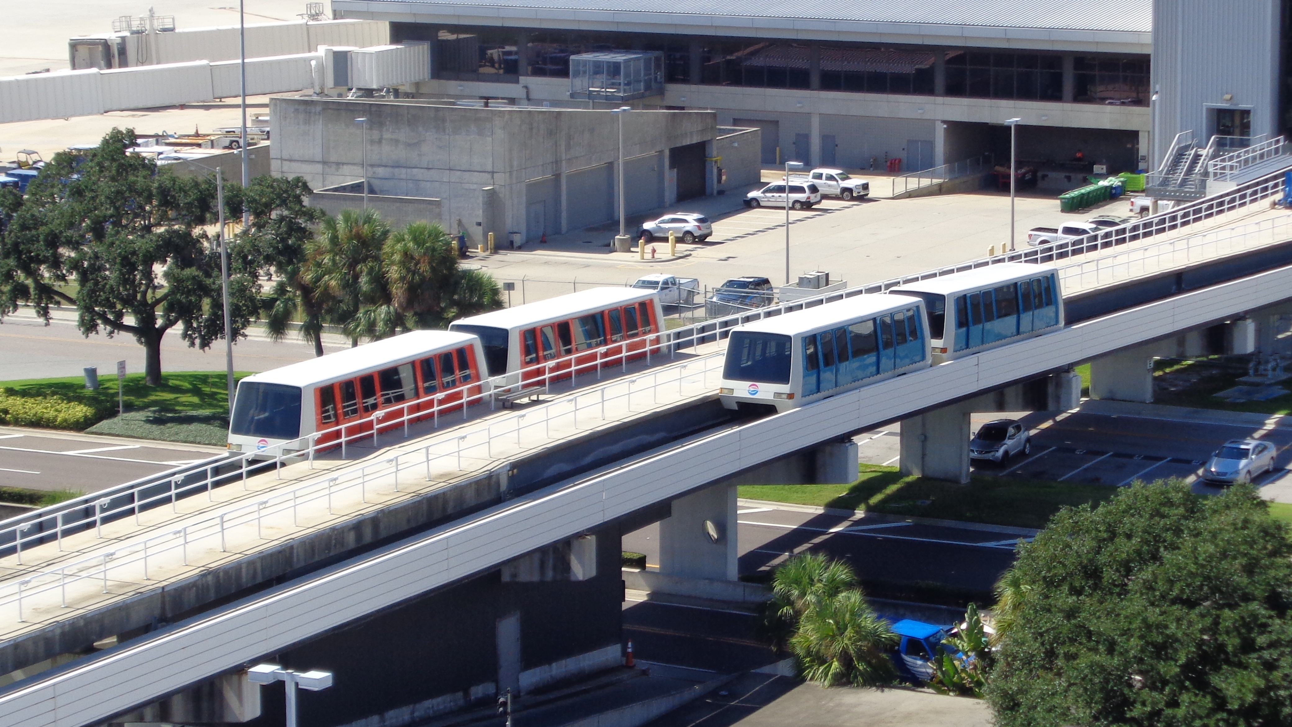 Tampa International Airport in Tampa, Florida.